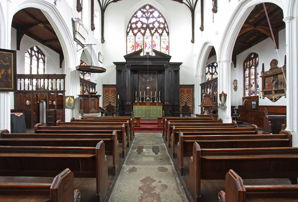 St John Maddermarket, Norwich - East end, near to Norwich, Norfolk, Great Britain.